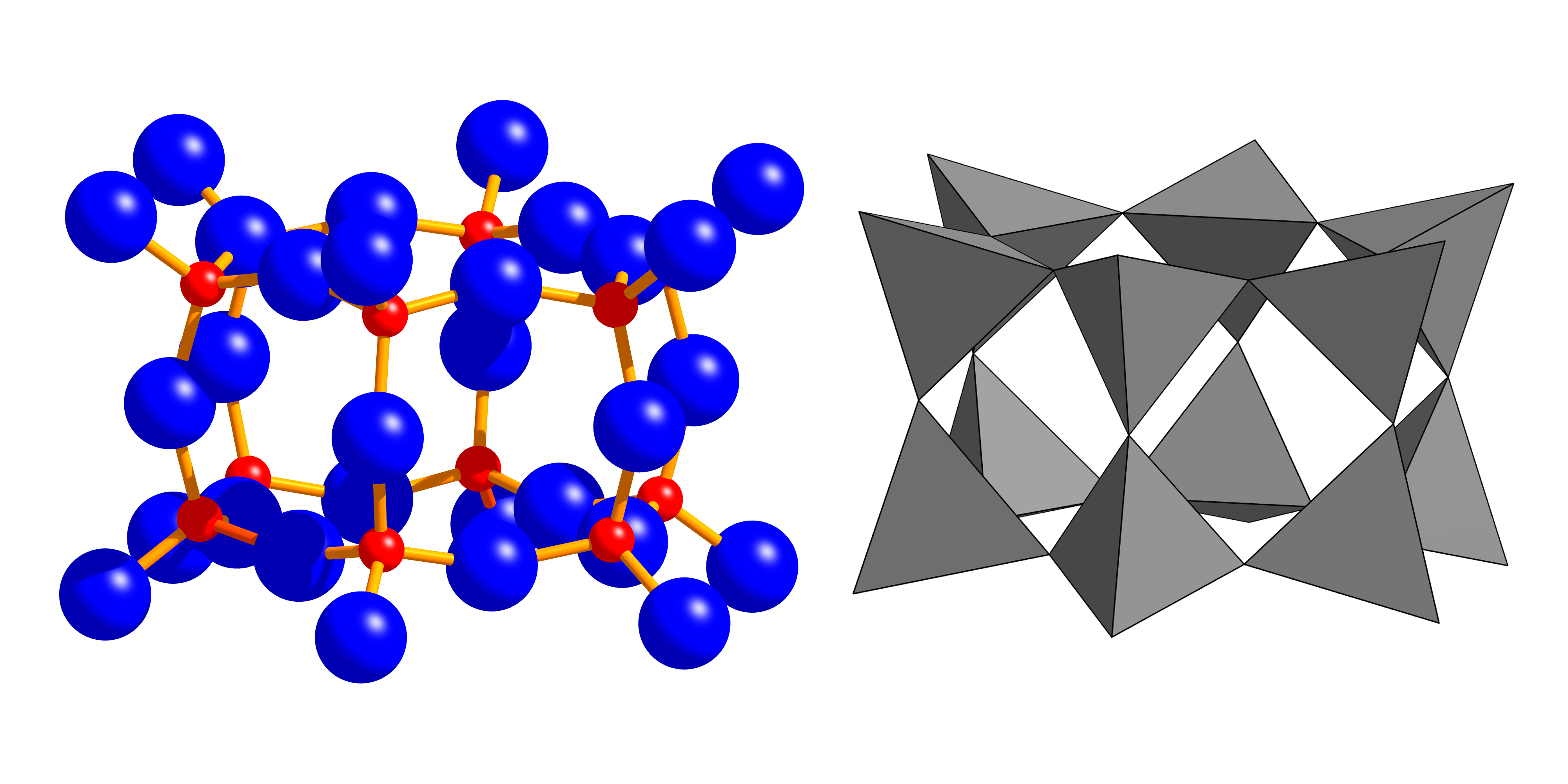 Milarite structure: 6er double ring of T1 position left: atoms (red: silicon, blue: oxygen) right: coordination polyhedra Data from: Hawthorne, F. C., Kimata M., Cerny P., Ball N. A., Rossman G. R., Grice J. D. (1991): The crystal chemistry of the milarite-group minerals (sample 25 from Guanajuato), American Mineralogist 76, pp. 1836-1856 Calculation of image data: Larry W. Finger, Martin Kroeker, and Brian H. Toby, DRAWxtl, an open-source computer program to produce crystal-structure drawings, J. Applied Crystallography V40, pp. 188-192, 2007 Rendering: POVRAY